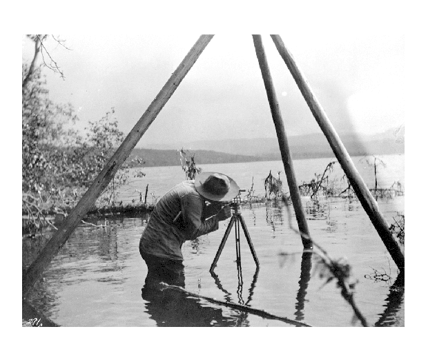 Frank Swannell at Takla Lake. Photo taken 1912